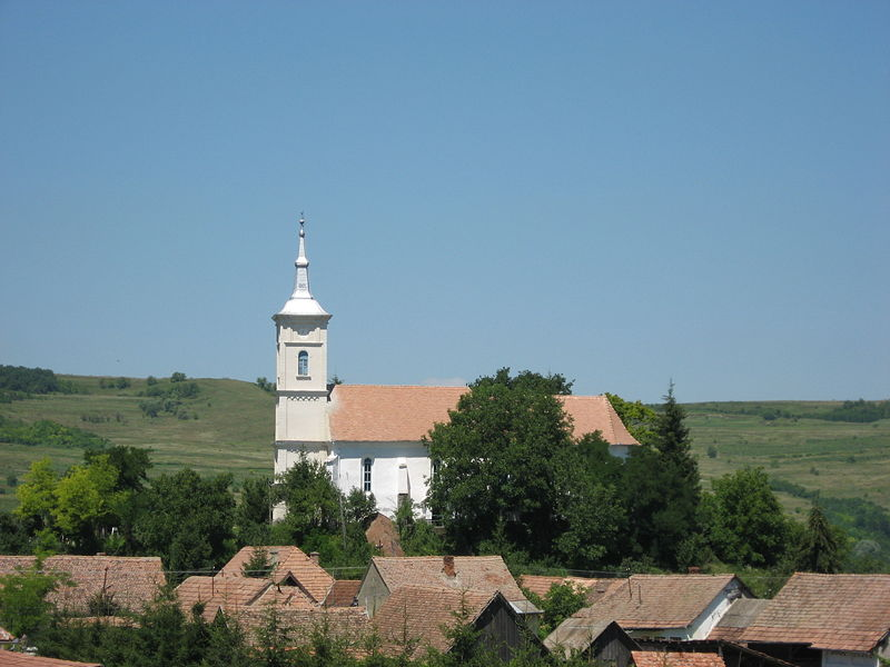 The Reformed Church at Bonyha (Bahnea)